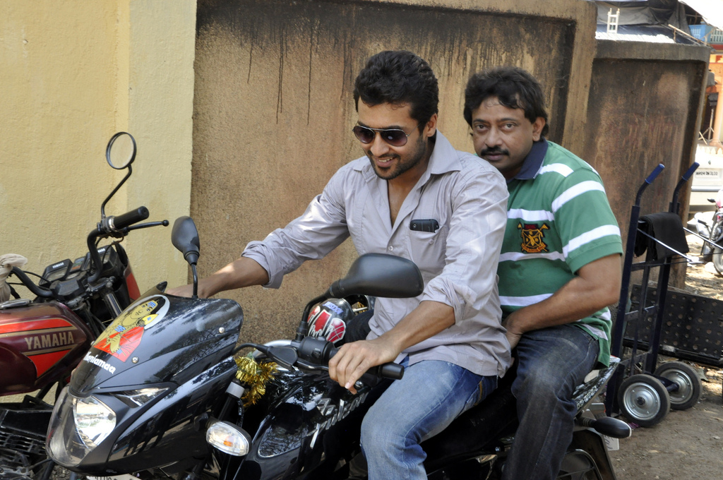 Suriya jolly rides with the Director of the movie Rakht Charitra.